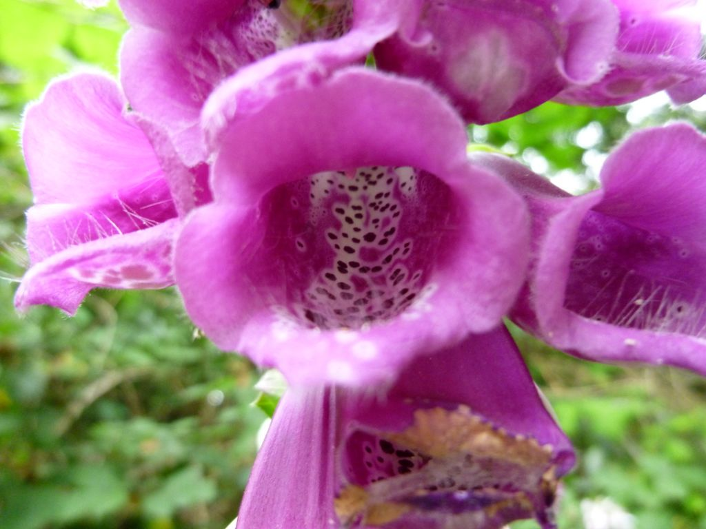 Digitalis purpurea